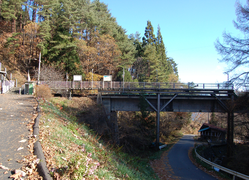 Sanriku Railway Kita Riasu Line Shirai-Kaigan Station